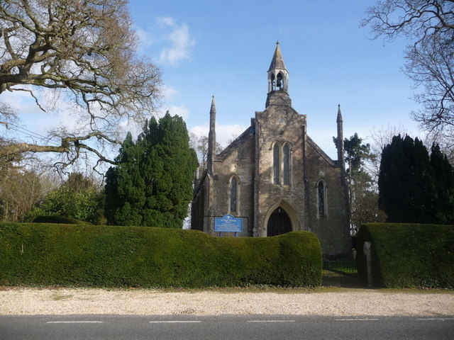 Bisterne: church of St. Paul A small C. of E. church serving the northern part of the parish of Sopley.